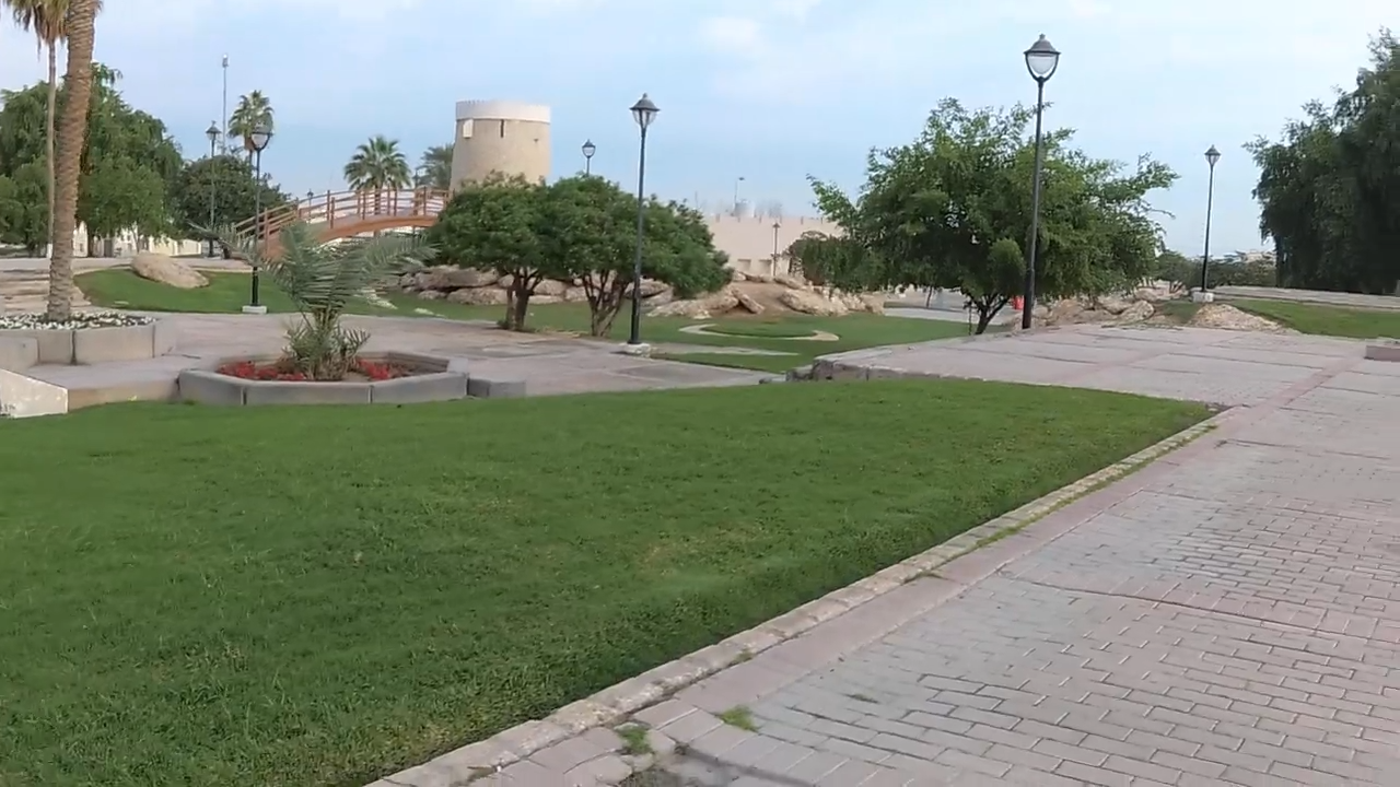 Doha Club Park in the Al Khulaifat district of Doha, Qatar.